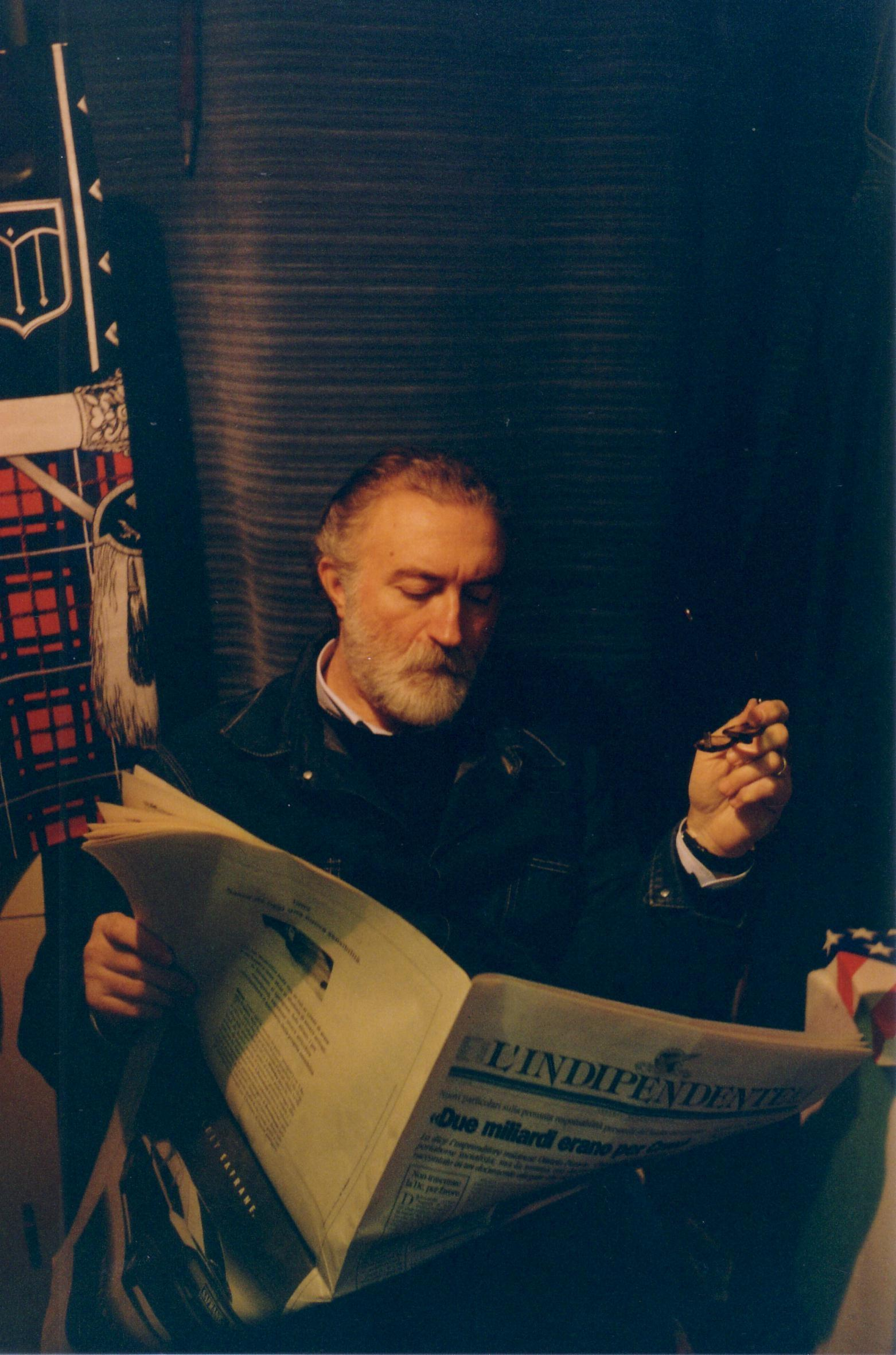 Roberto Tirelli